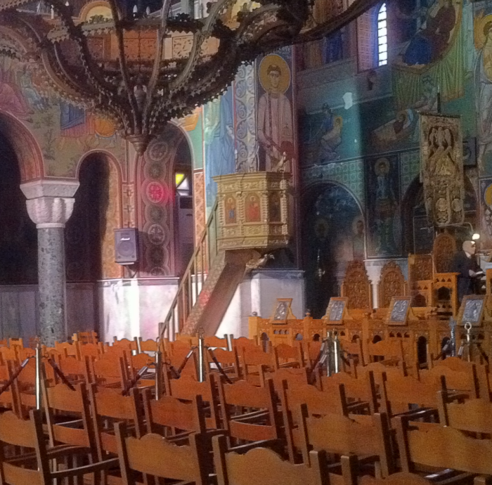 This is a photograph of a contemporary Greek ambon, which functions similarly to a western pulpit, but retains some of the features of the ancient ambo. The sermon and epistle arCategory:Byzantine Rite e read from here, but the gospel is read from the solea at the Royal Doors.